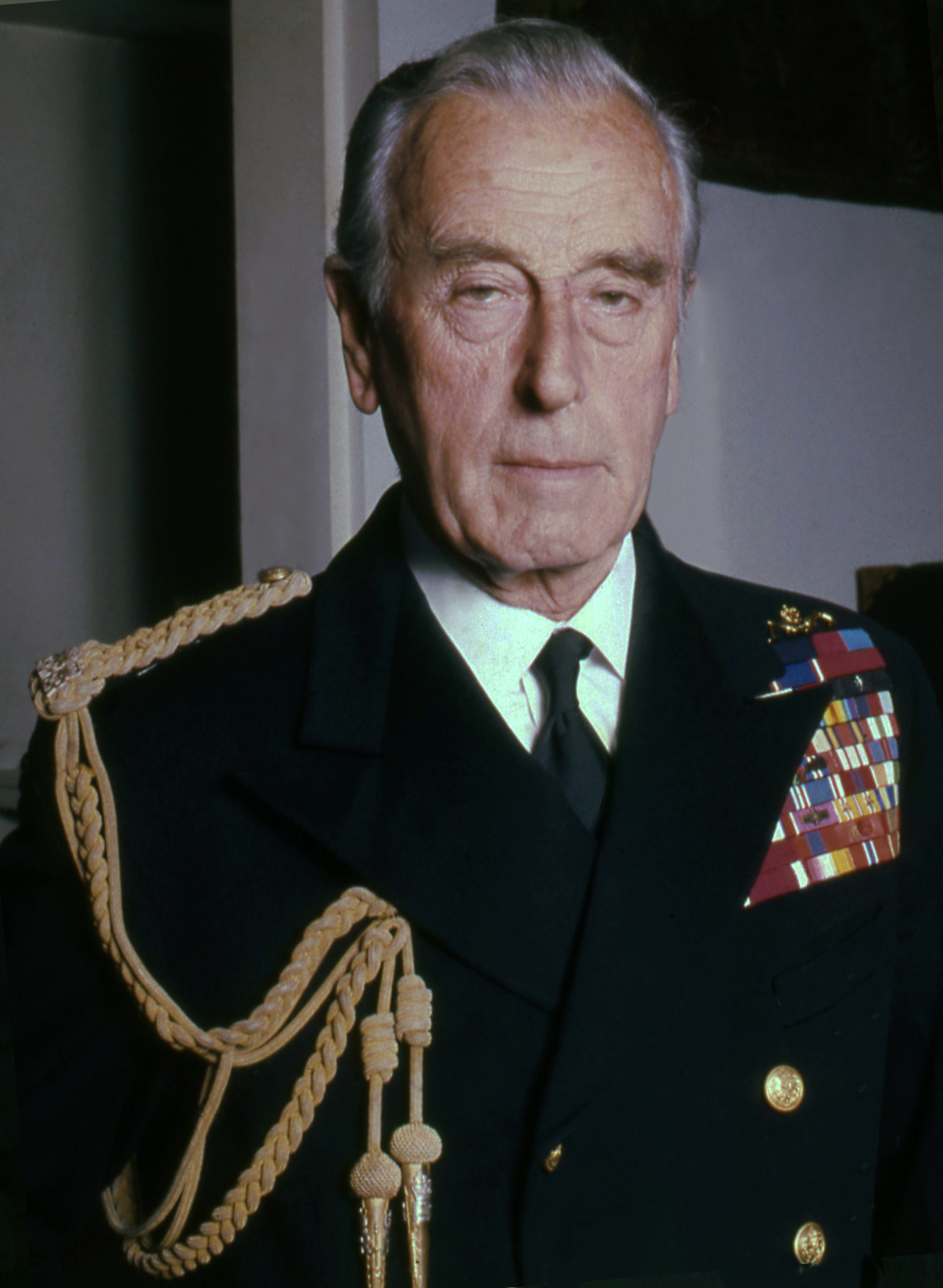 Earl Mountbatten of Burma taken in the photographer's home in Belgravia, London